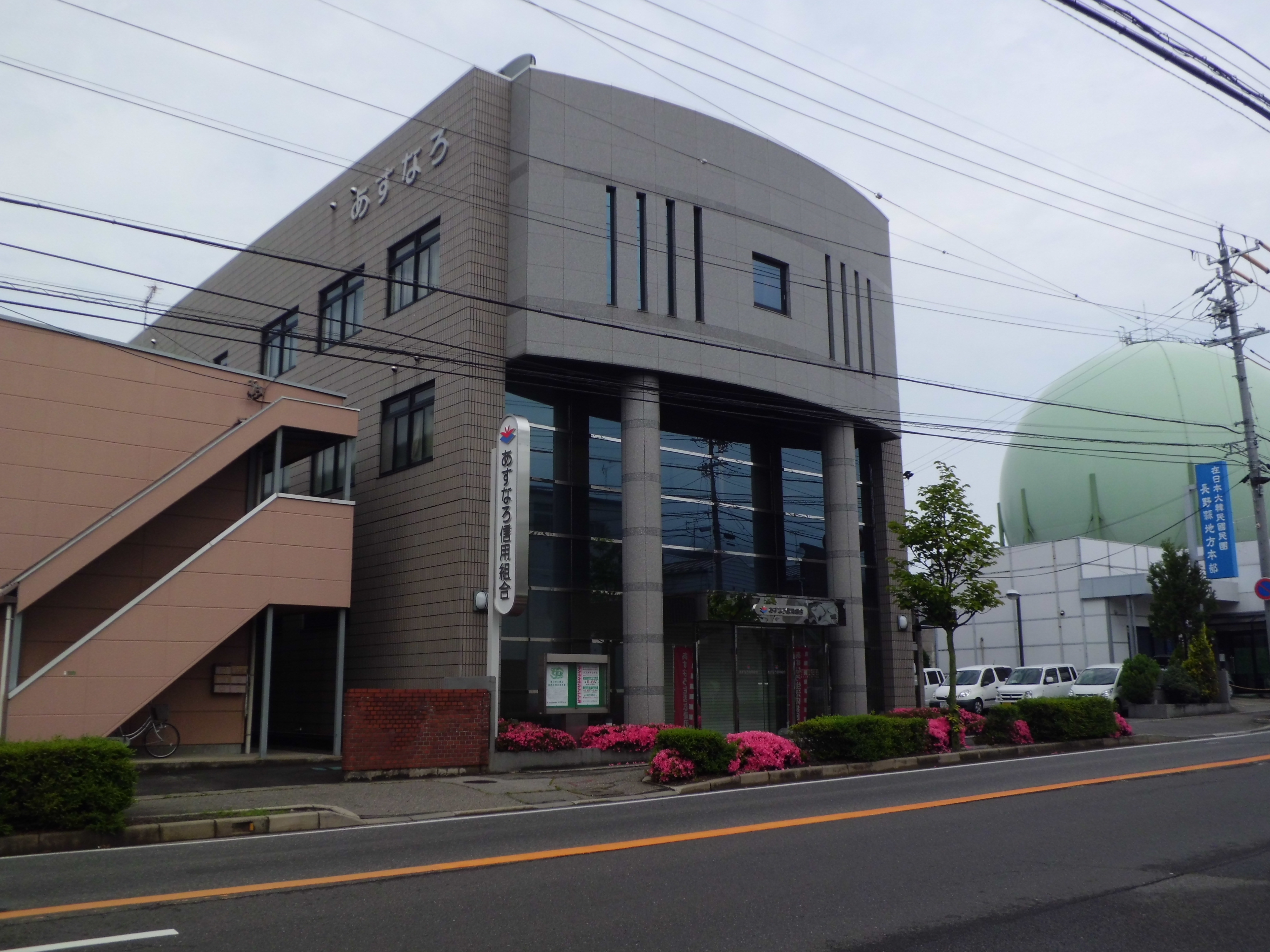 Head office of Asunaro Credit Union in Matsumoto city, Nagano prefecture, Japan.